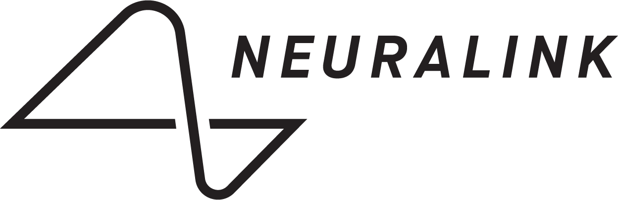 Neuralink Logo